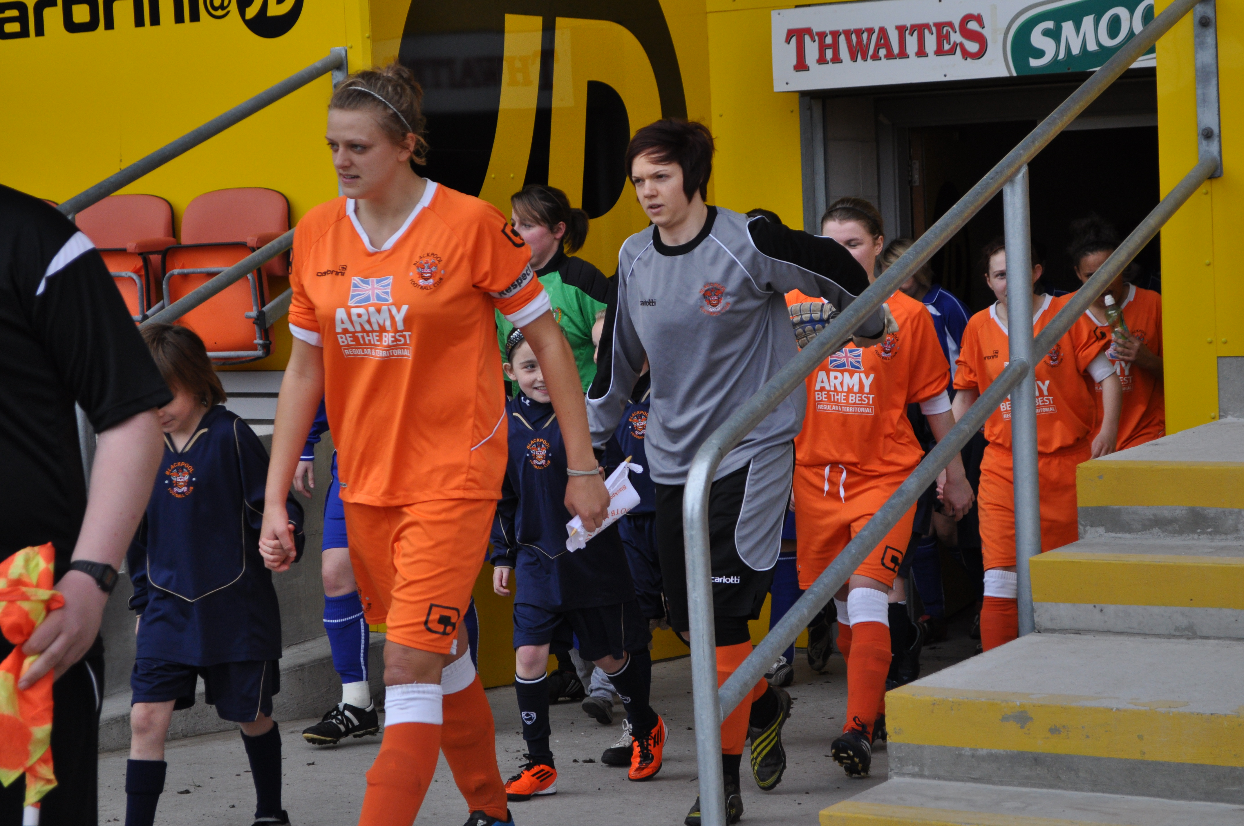 Blackpool FC Ladies Captain Alice Jackson leads out the first Blackpool FC Ladies Fixture at Bloomfield Road.